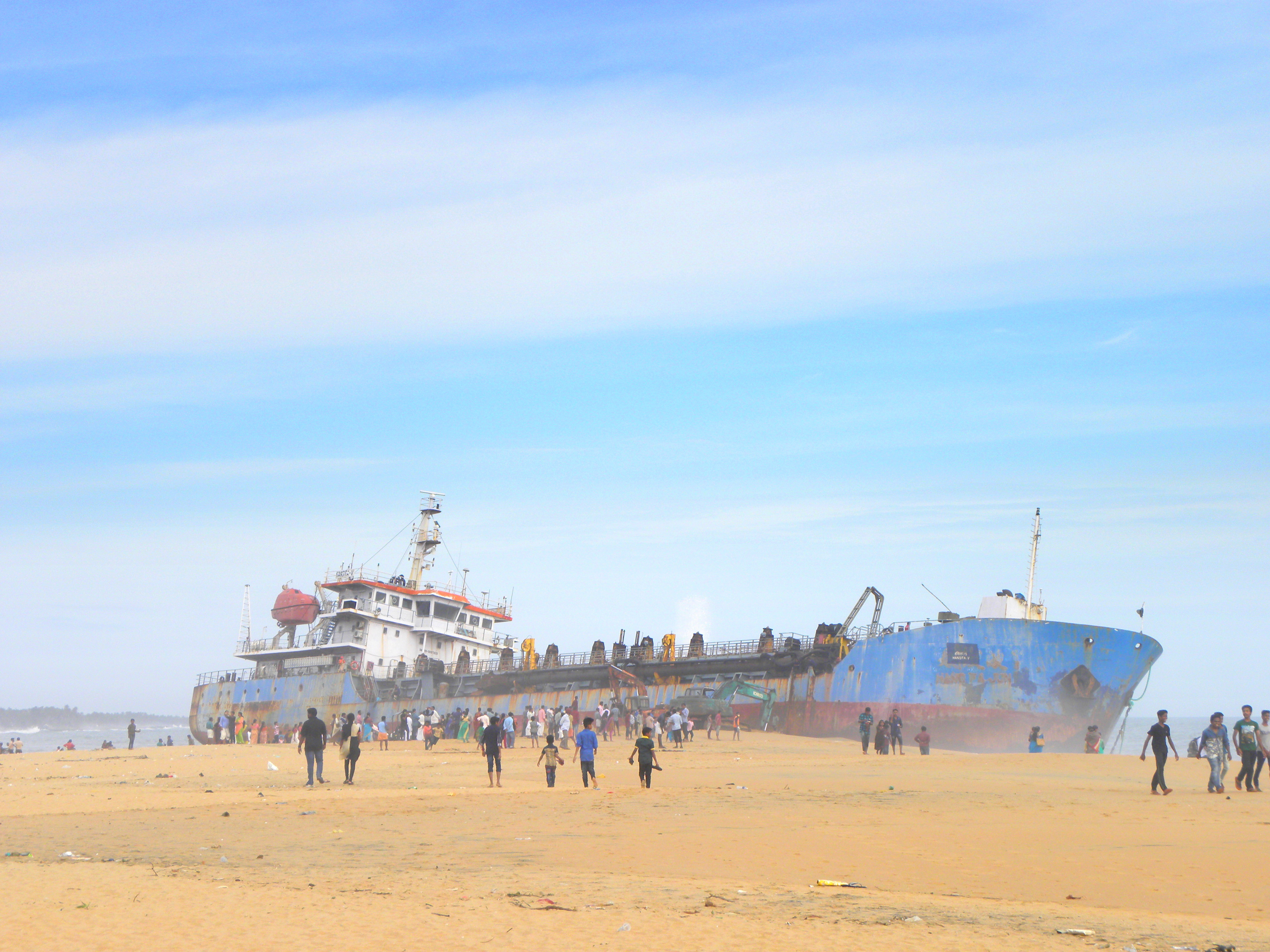 A dredger ship called "Hansitha" is now at Mundakkal coast near Kollam city in India